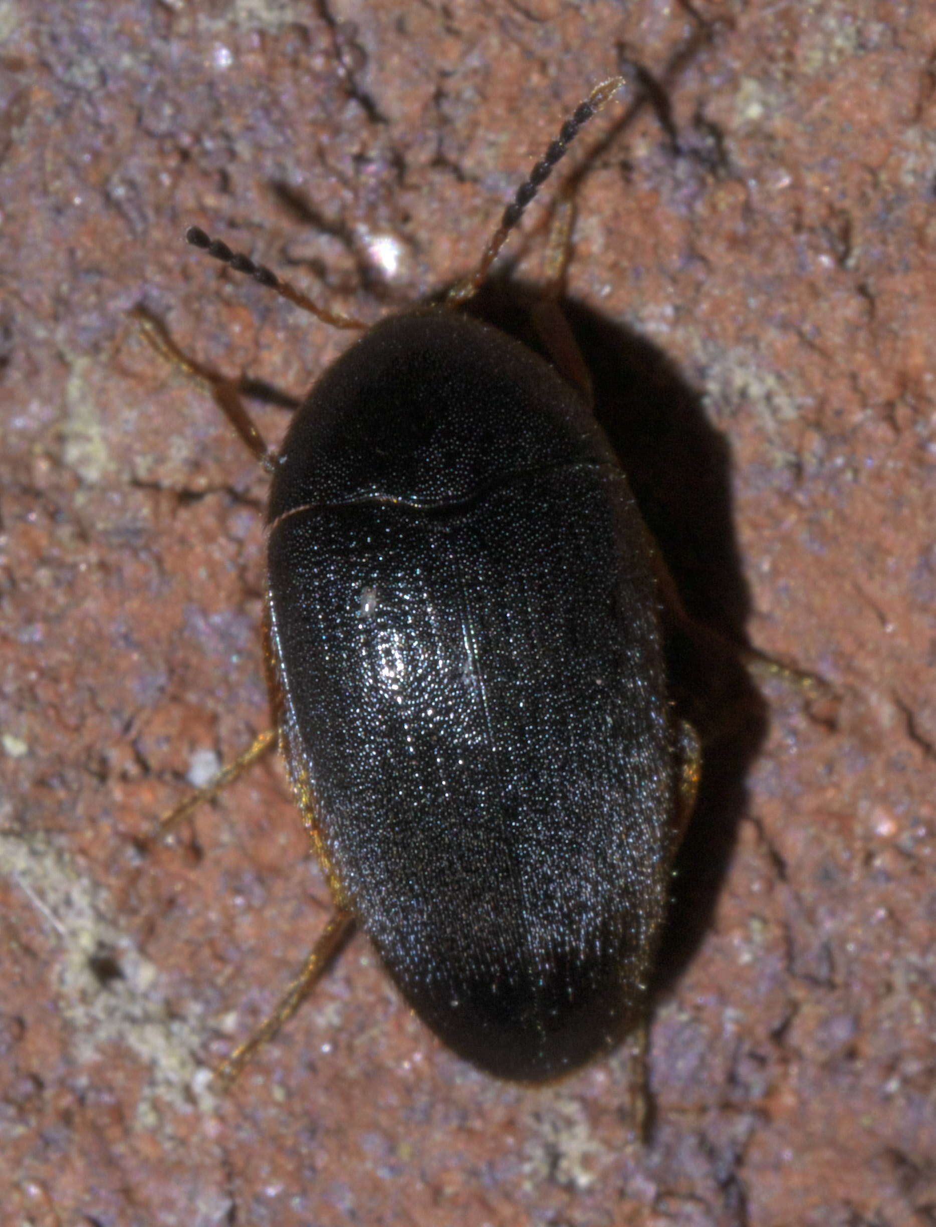 Eucinetus morio, Family: Plate-thigh Beetles, Size: 5.9 mm, ID Confidence: 88